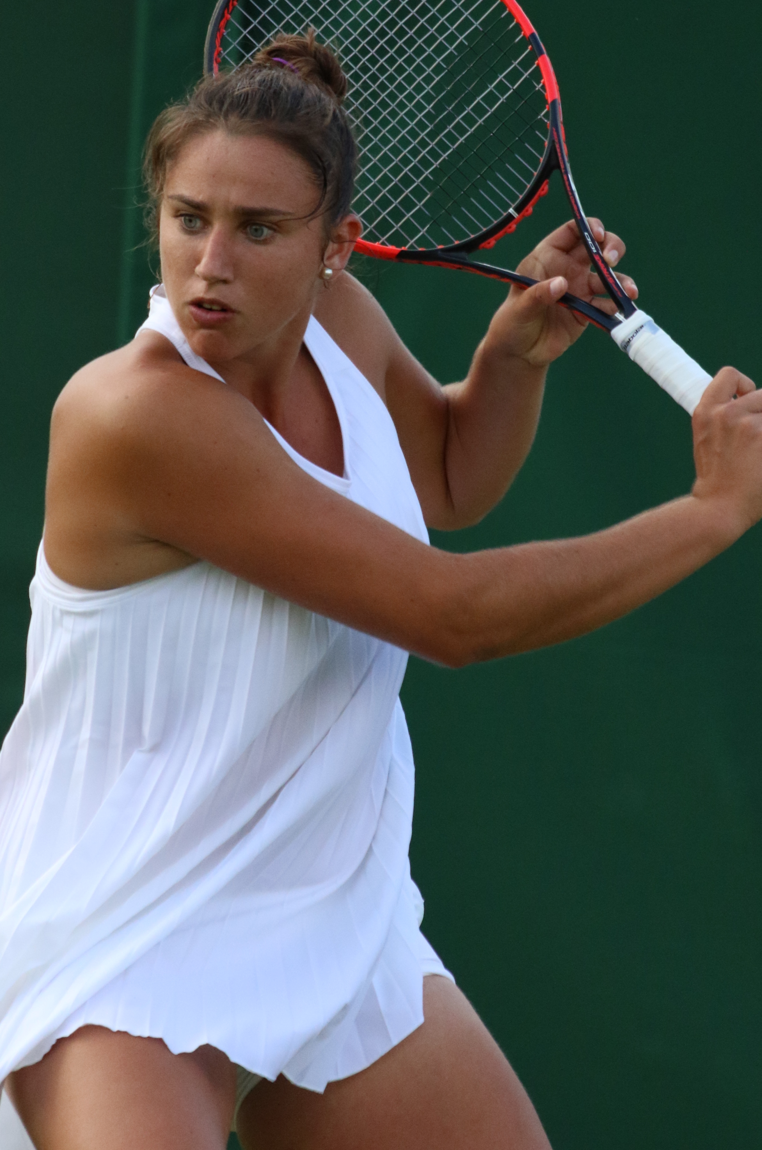 Sorribes Tormo WMQ16 (4)